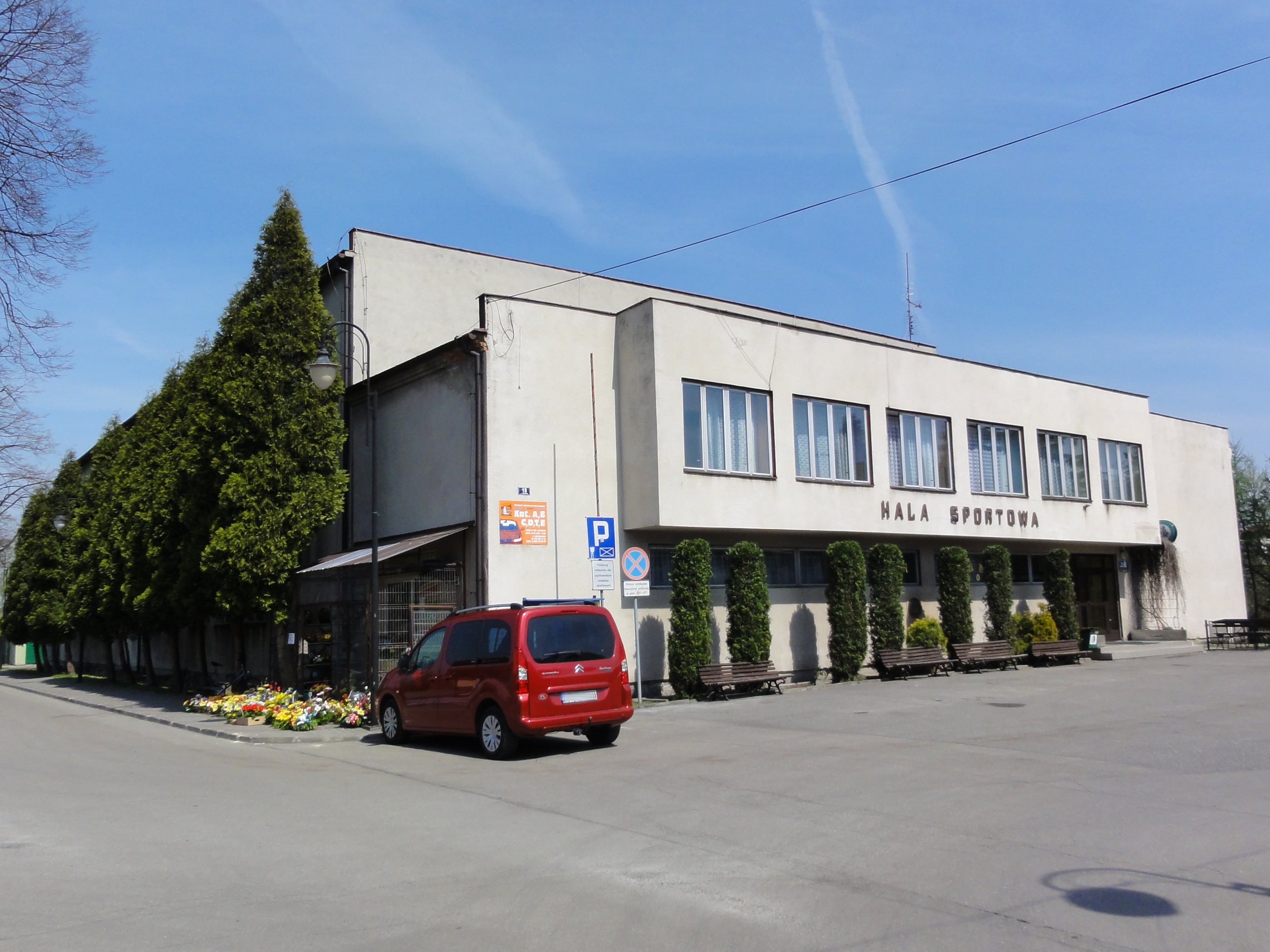 Sports hall in Chybie